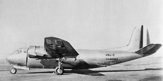 A U.S. Marine Corps Douglas R3D-2 (BuNo 1904) from VMJ-2 parked on a flight line. This aircraft was transferred to the Pacific shortly after Japanese attack on Pearl Harbor and crashed on an island off the Australian coast after being hit by flak from a Japanese submarine on 31 January 1942.